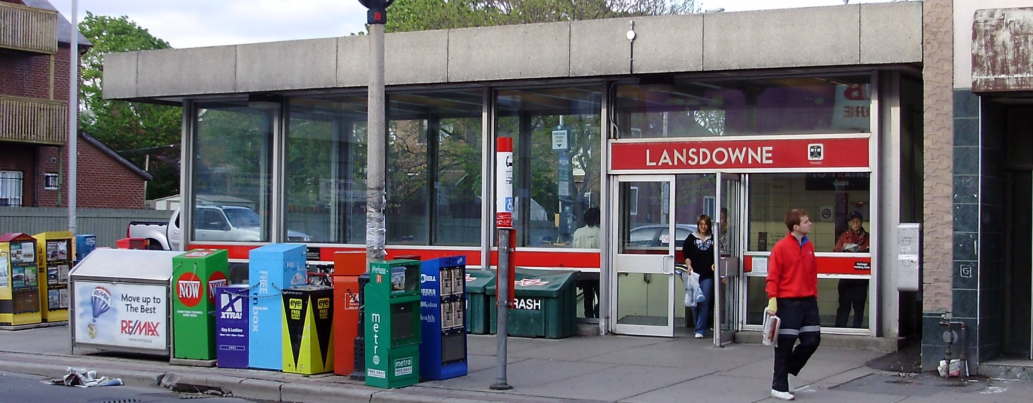 The Toronto Transit Commission's Lansdowne station in Toronto, Canada.